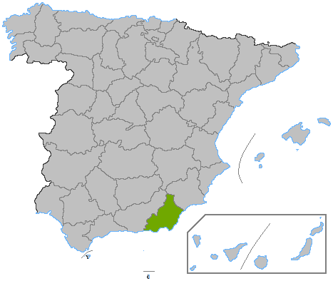 Location of the province of Almería, in Spain. Basado en: ProvPont.jpg Source: Designed by Satesclop. Original picture, designed by Sobreira.